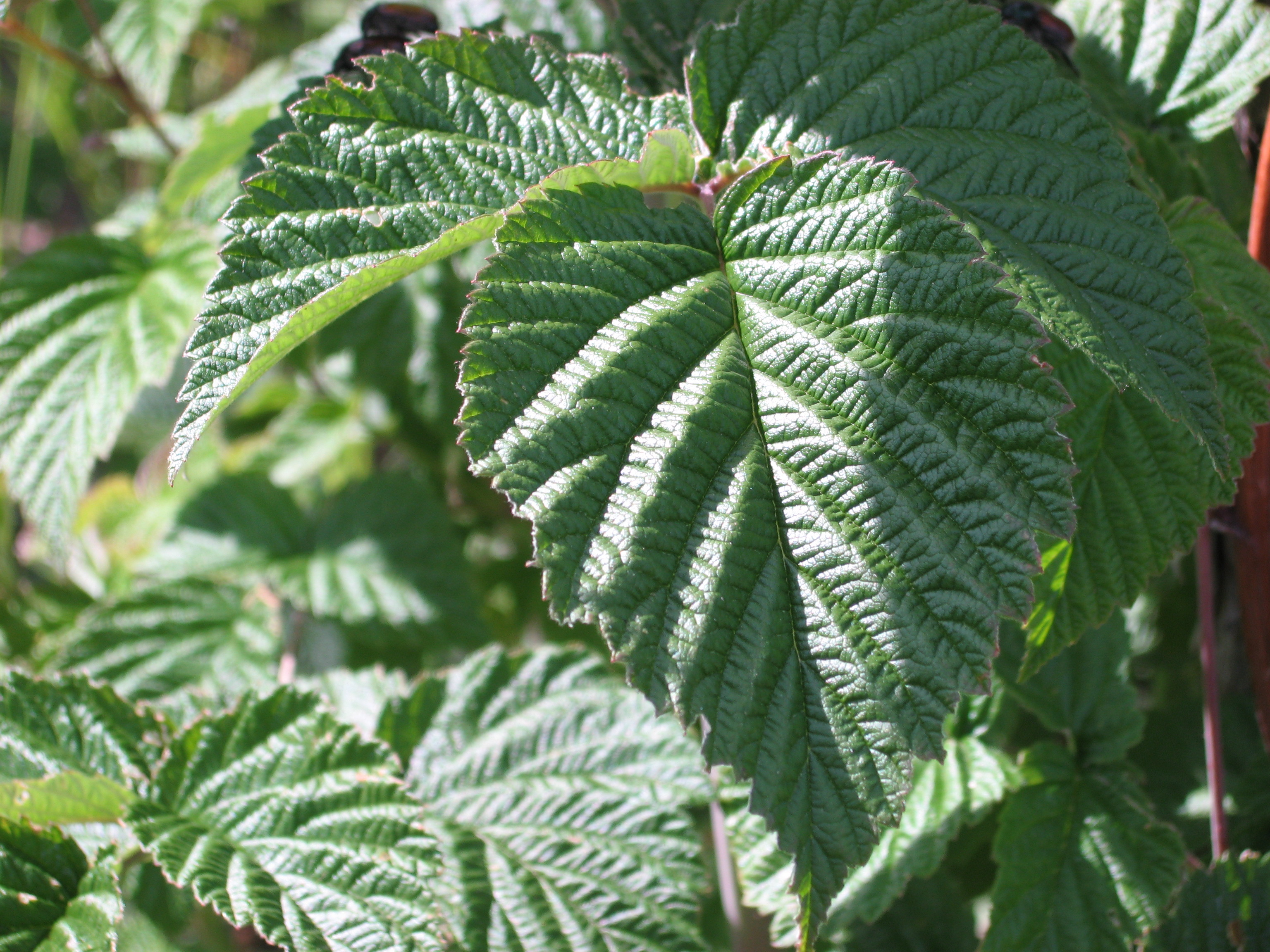 Leaf of raspberry (Rubus idaeus) Лист малины обыкновенной (Rubus idaeus leaf)